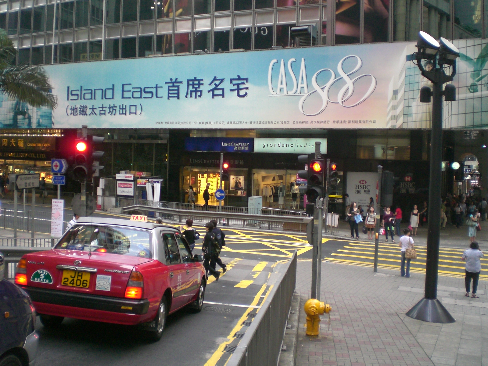 雲咸街, Wyndham Street, Central, Hong Kong. Author= Kwanyatsw